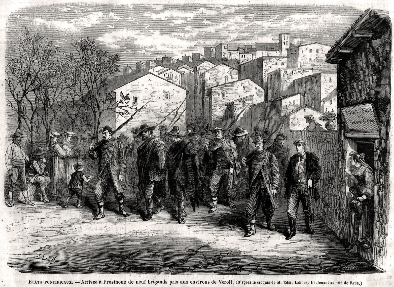 Papal State: brigants prisonniers near Frosinone